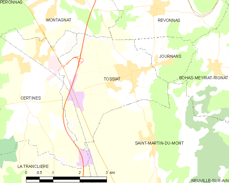 Map of French commune: Tossiat Map commune FR insee code 01422.png